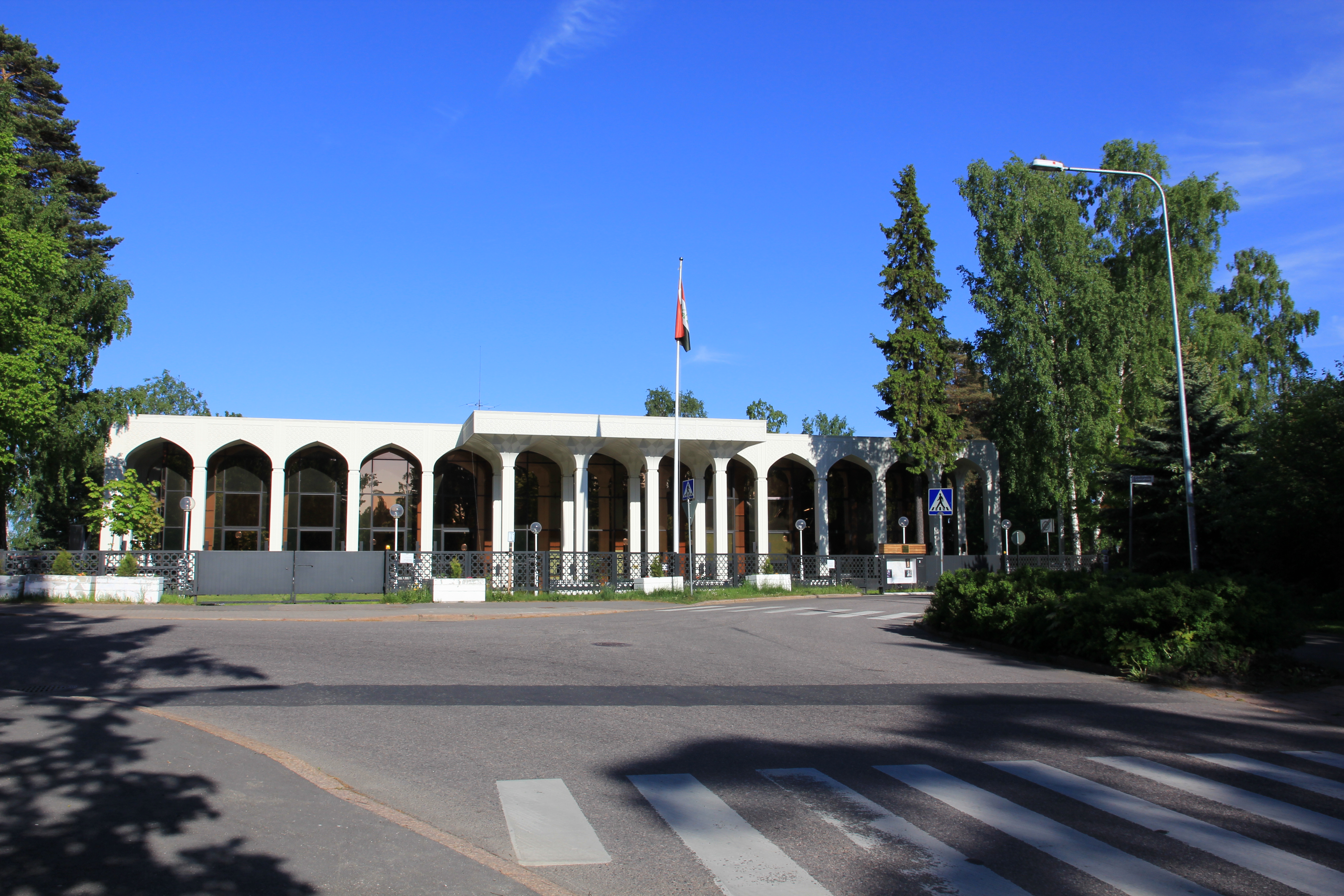 Iraqi embassy in Kulosaari island in Helsinki, address Lars Sonckin tie 2.